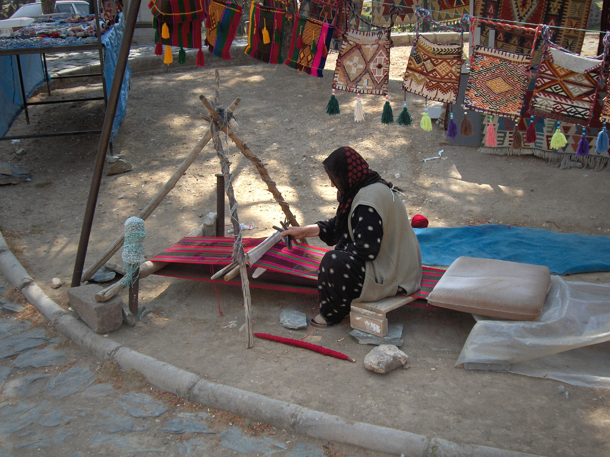 Traditional carpet weaving; Izmir, Turkey